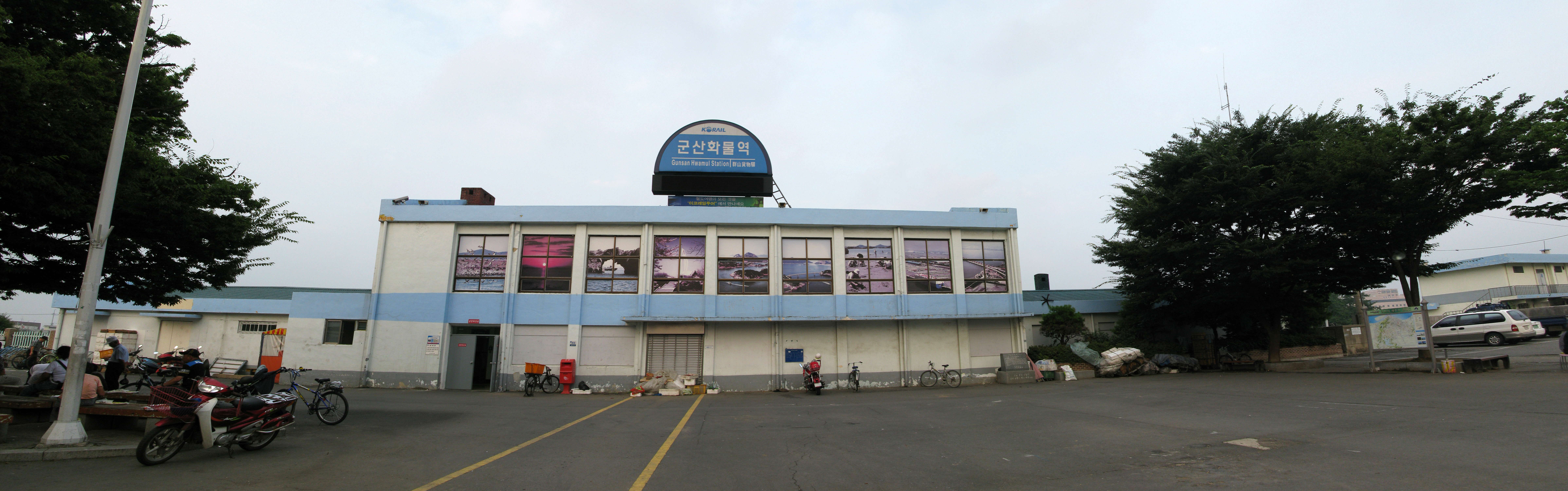 Gunsan Hwamul Line Gunsan Hwamul Station